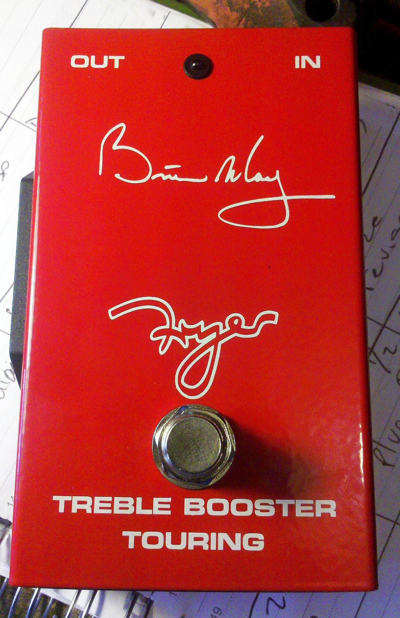 Treble Booster Touring Fryer True bypass an Led Mod and